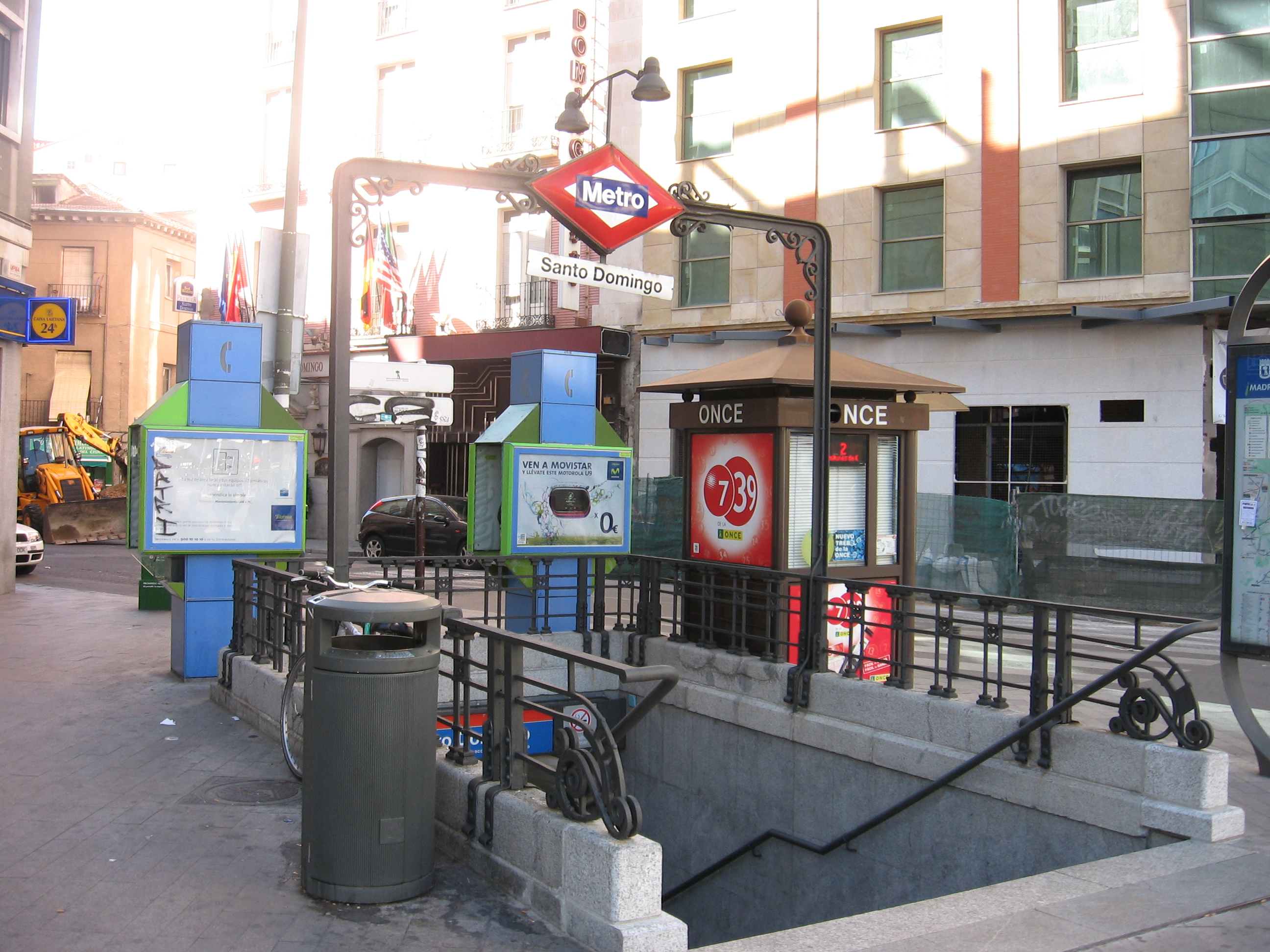 Santo Domingo (metro)